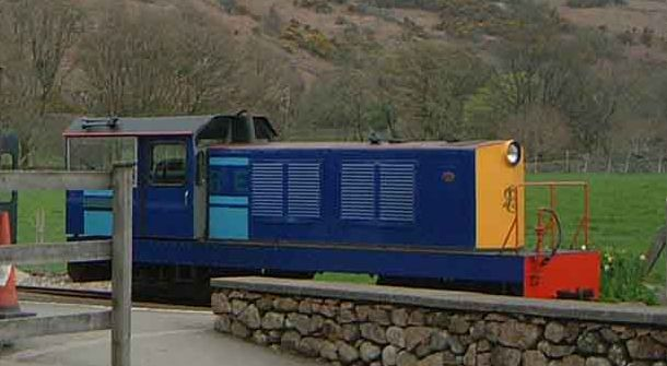 Personal photograph taken by Mick Knapton on 17th April 2005